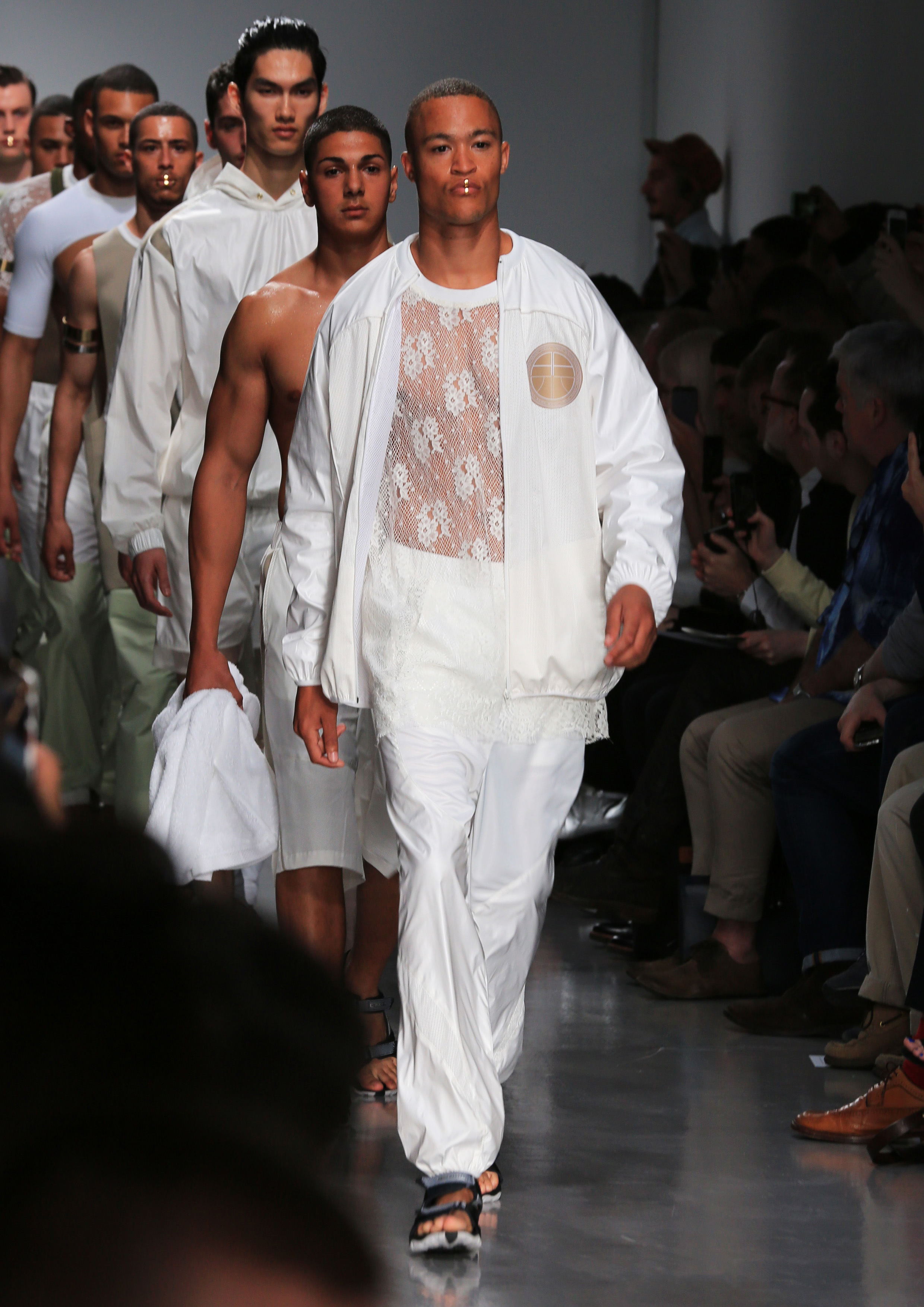 Catwalk